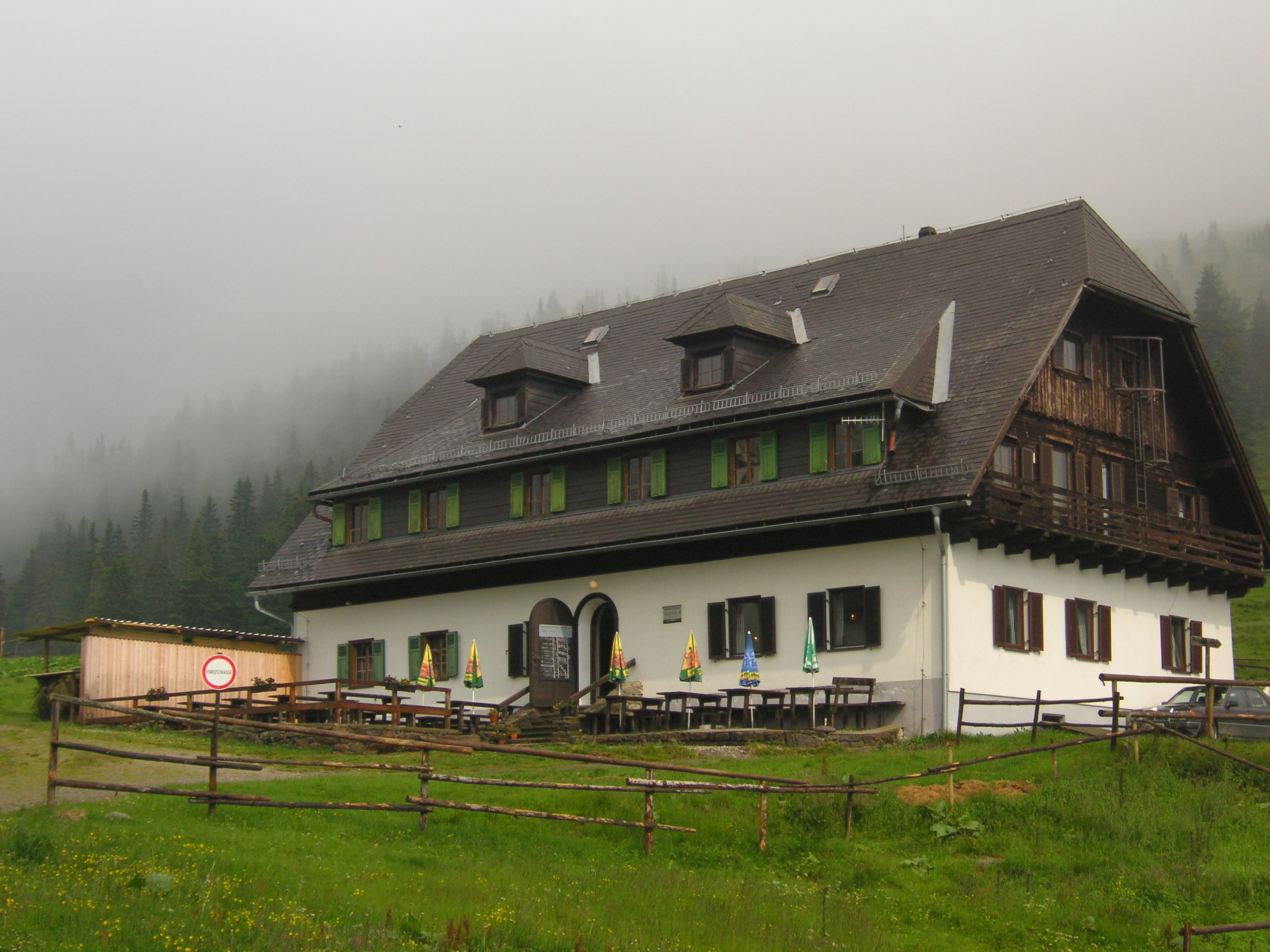 The Schutzhaus of the Gleinalpe